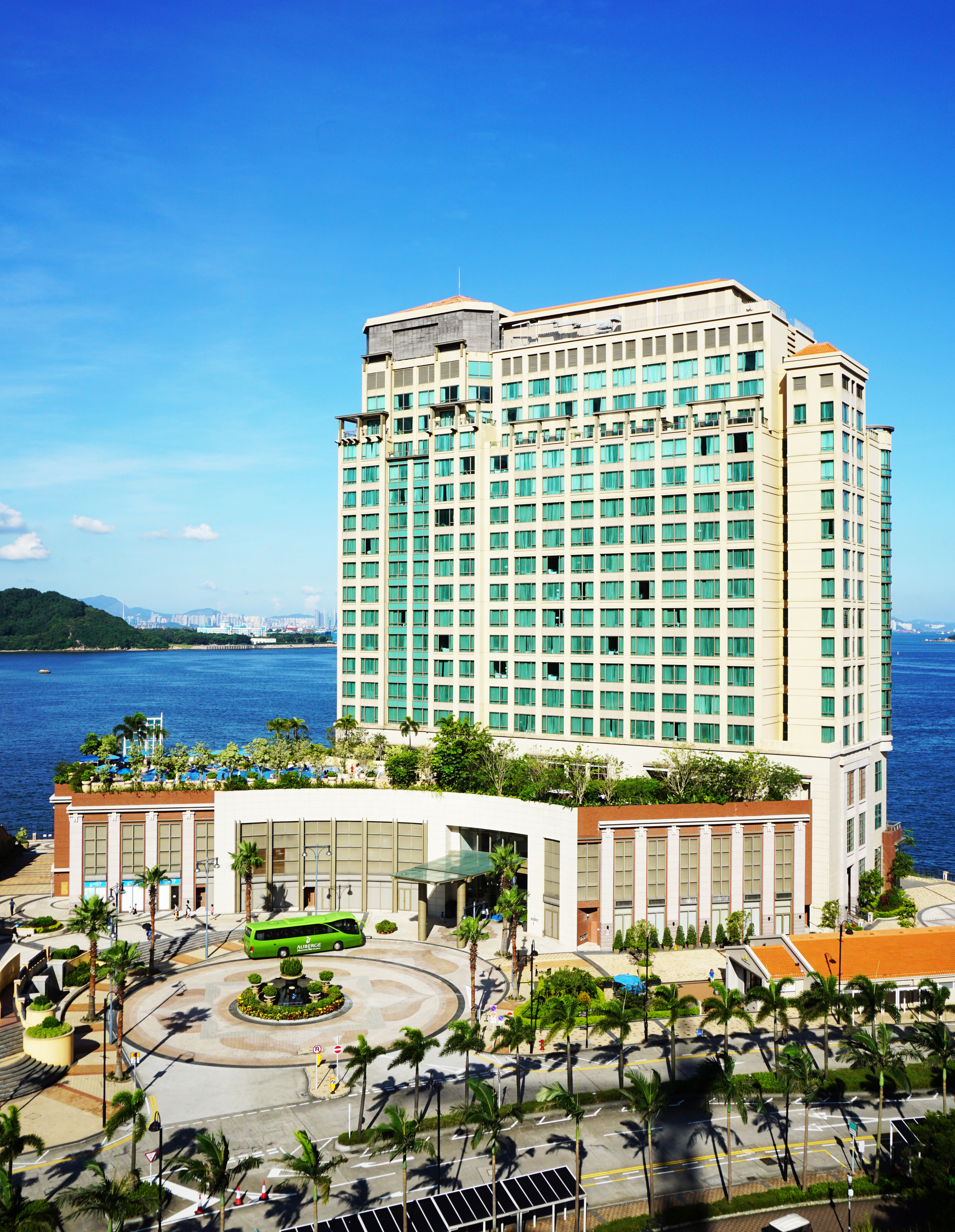 Auberge hotel in Discovery Bay, Hong Kong.